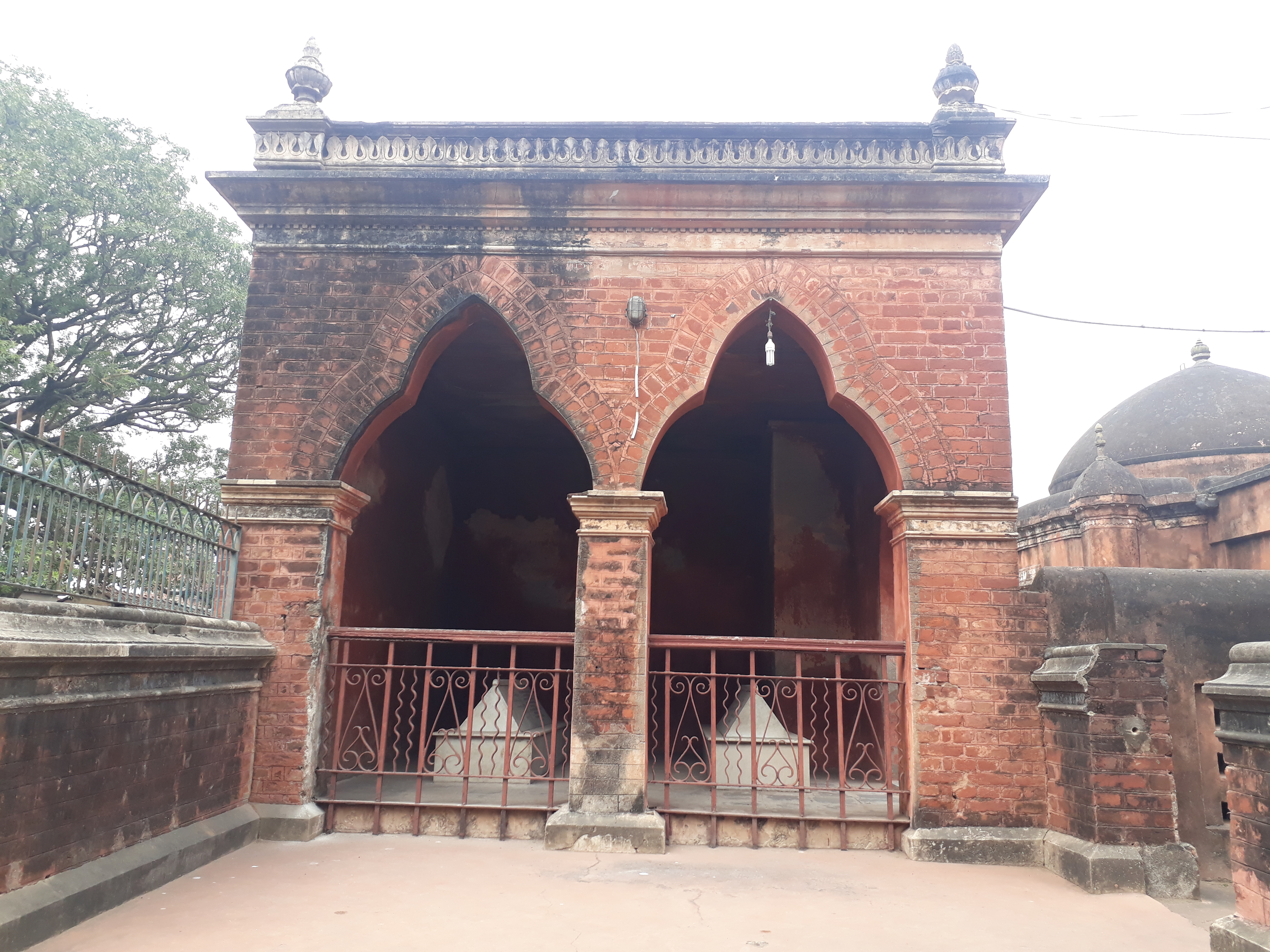 Tomb of Sher Afgan Khan and Qutbuddin, situated in Bahram Saqqa mosque complex, Bardhaman